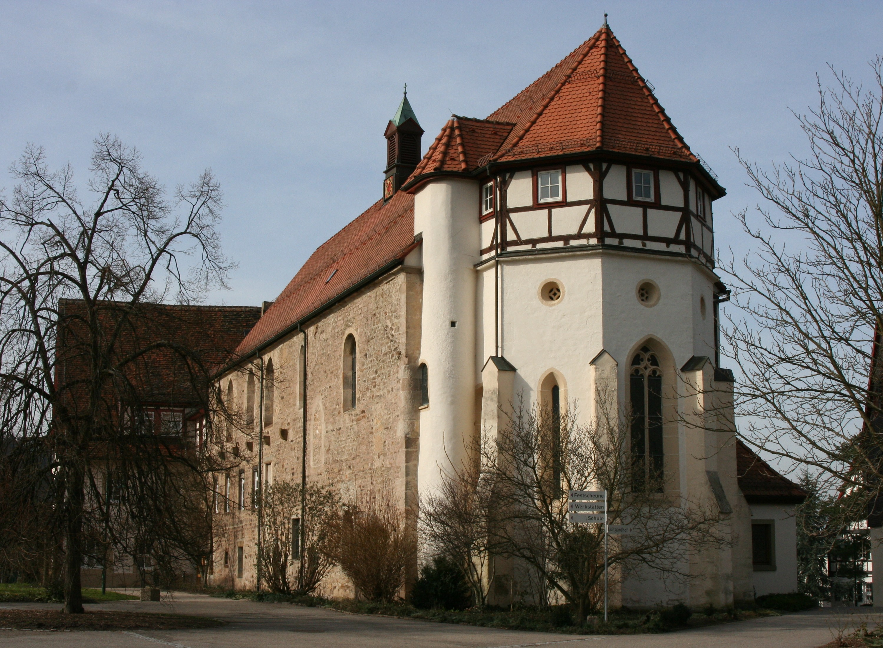 The former Cistercian nunnery in Löwenstein-Lichtenstern. Church